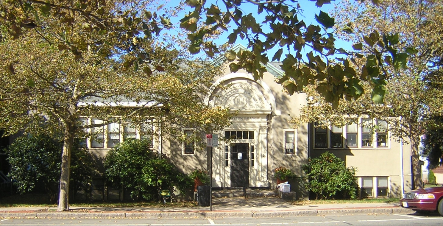 Wollaston Branch Thomas Crane Public Library, Quincy, MA